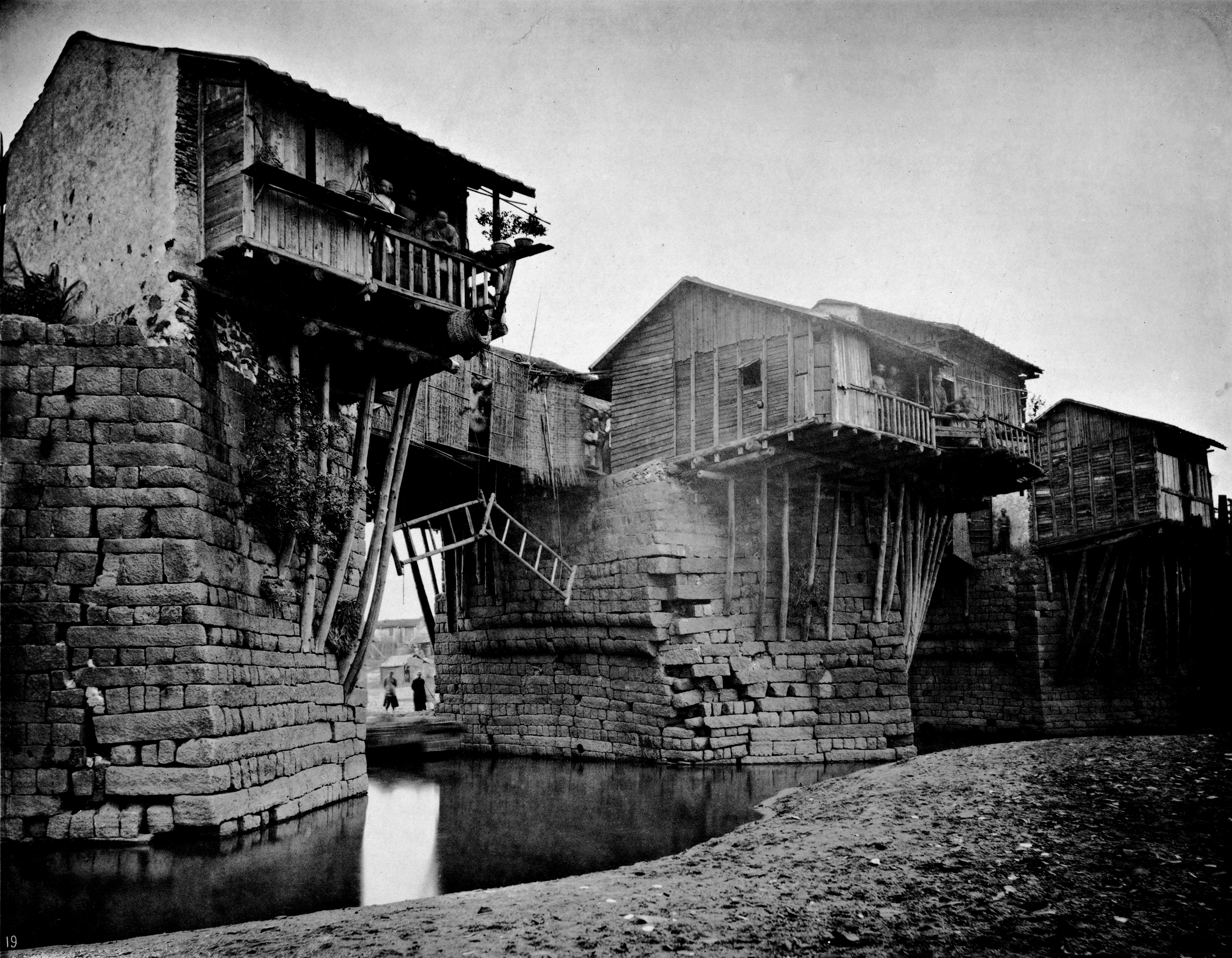 Photograph by John Thomson. See detail on the Wikisource link below.